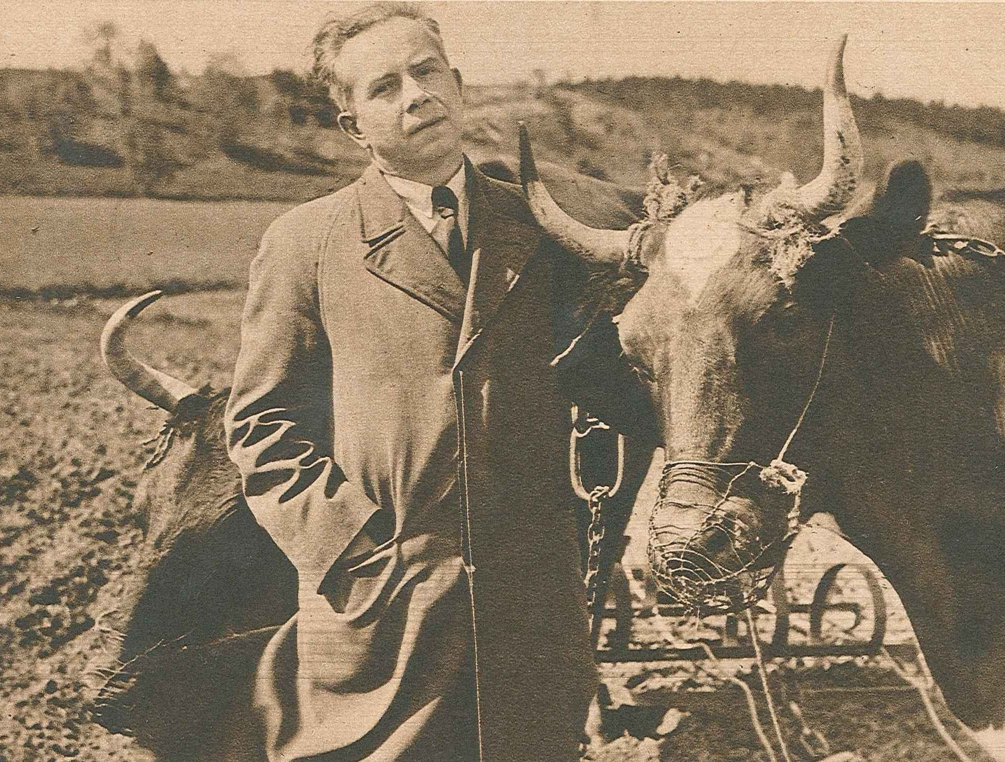 Swedish author Ivar Lo-Johansson (1901-1990) in a rural setting.